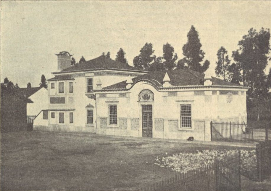 Main building of the Abela - São Domingos Railway Station, on the Sines Railway, in Portugal. This photograph was originally published in the Gazeta dos Caminhos de Ferro No. 1090, of the 16th May 1933, and scanned by the Hemeroteca Municipal de Lisboa. NOTE: Image subject is misidentified at the indicated source as the station at S. Bartolomeu da Serra. The same image was published, in the same periodical (Gazeta dos Caminhos de Ferro magazine No. 1078, of 16th November 1932 [1]) with the correct identification. That this is the Abela station can be verified from other photographs showing the other side of the building, with the station name visible. The Bartolomeu station was very similar, but the two story section was at the opposite end.